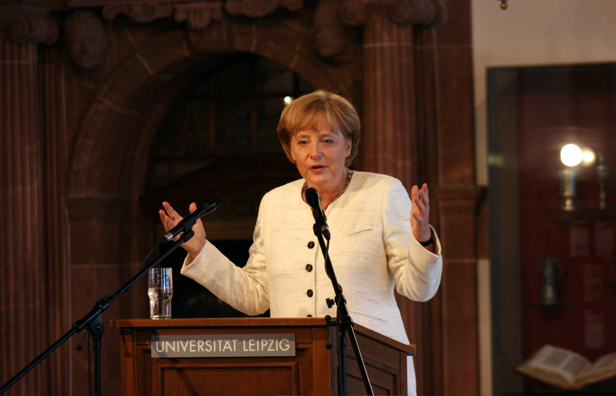 Angela Merkel after receiving an honorary doctorate at Leipzig University